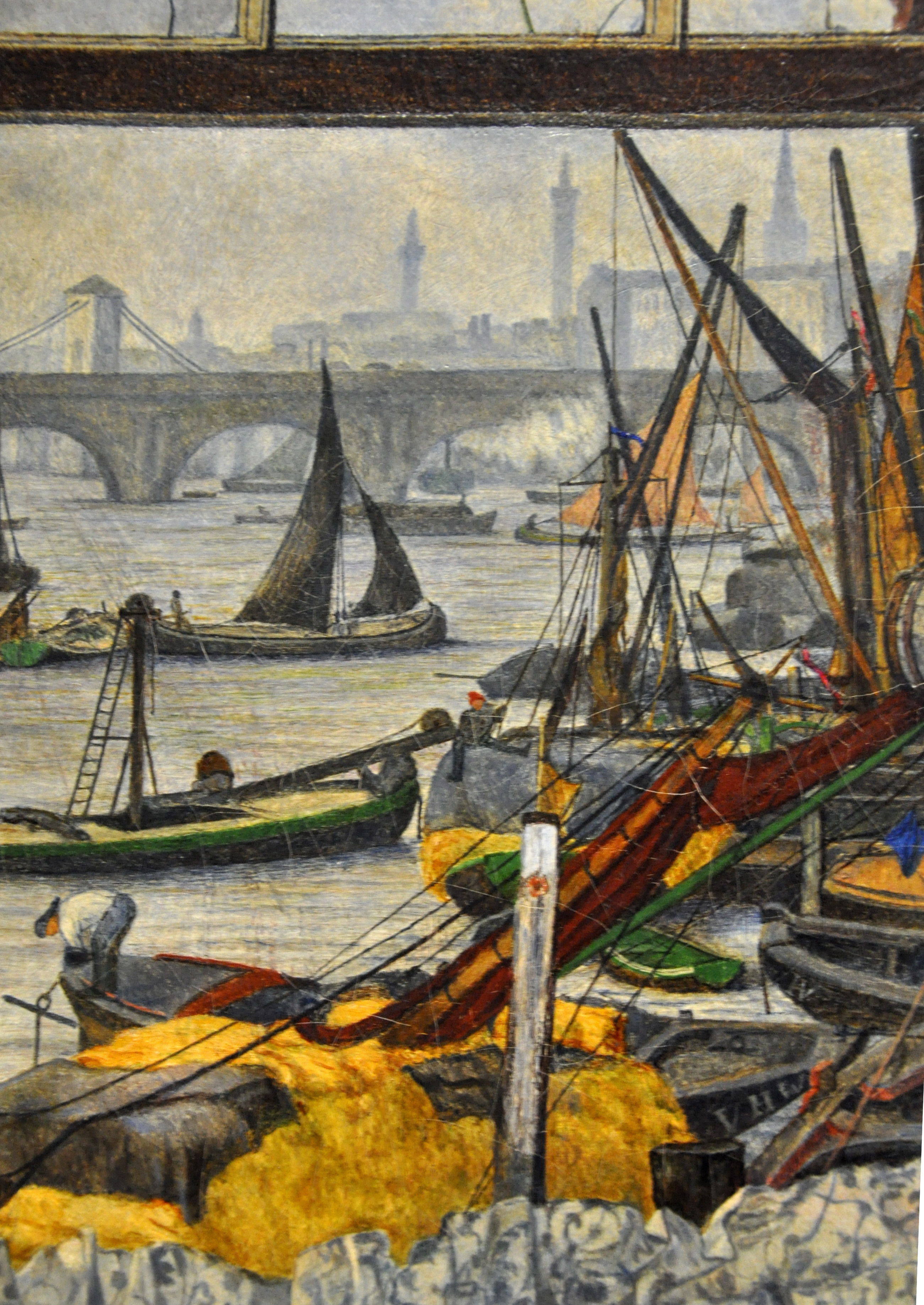 detail: Thames docks in London